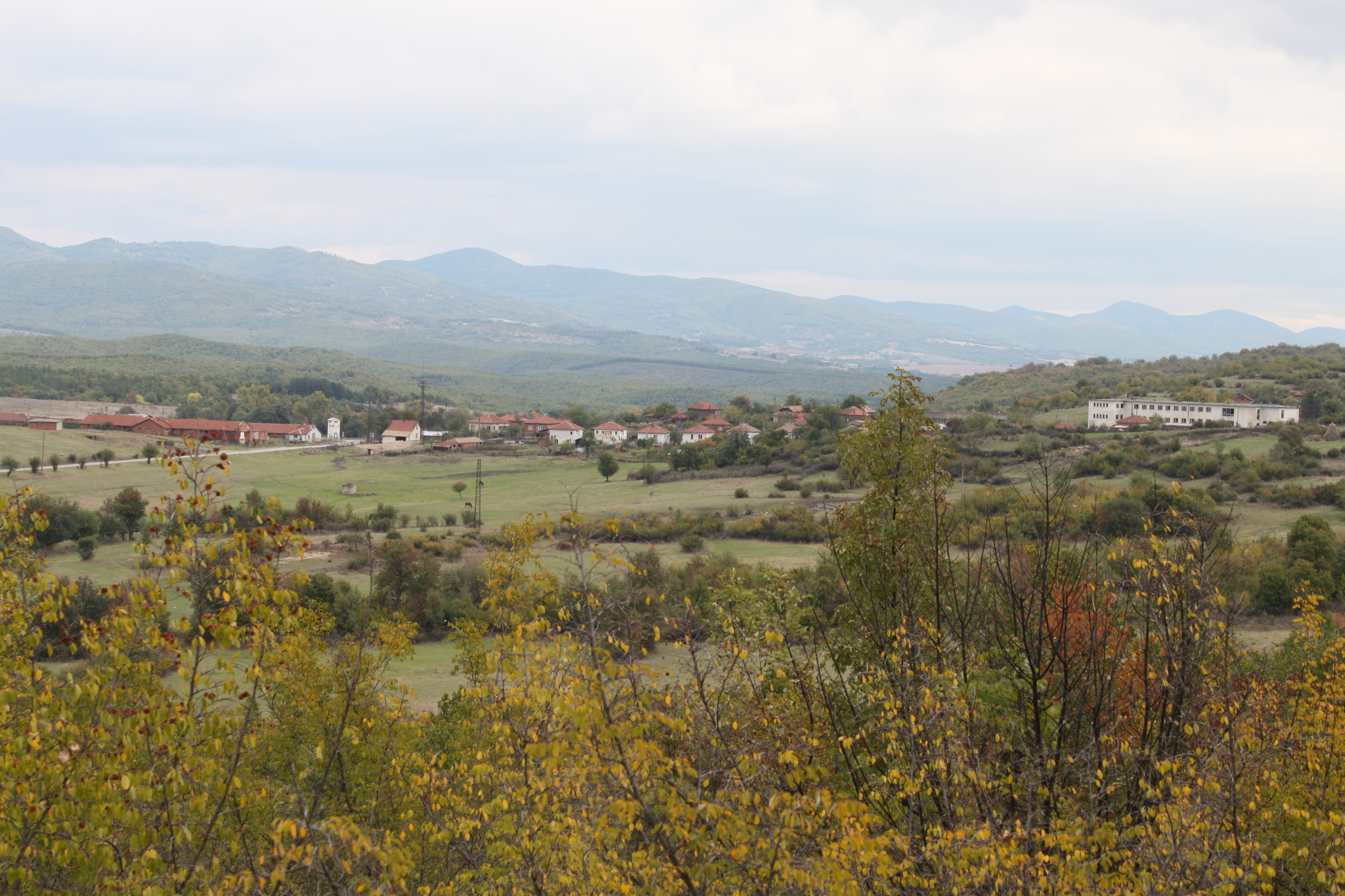 Dolni glavanak, Haskovo District, Bulgaria